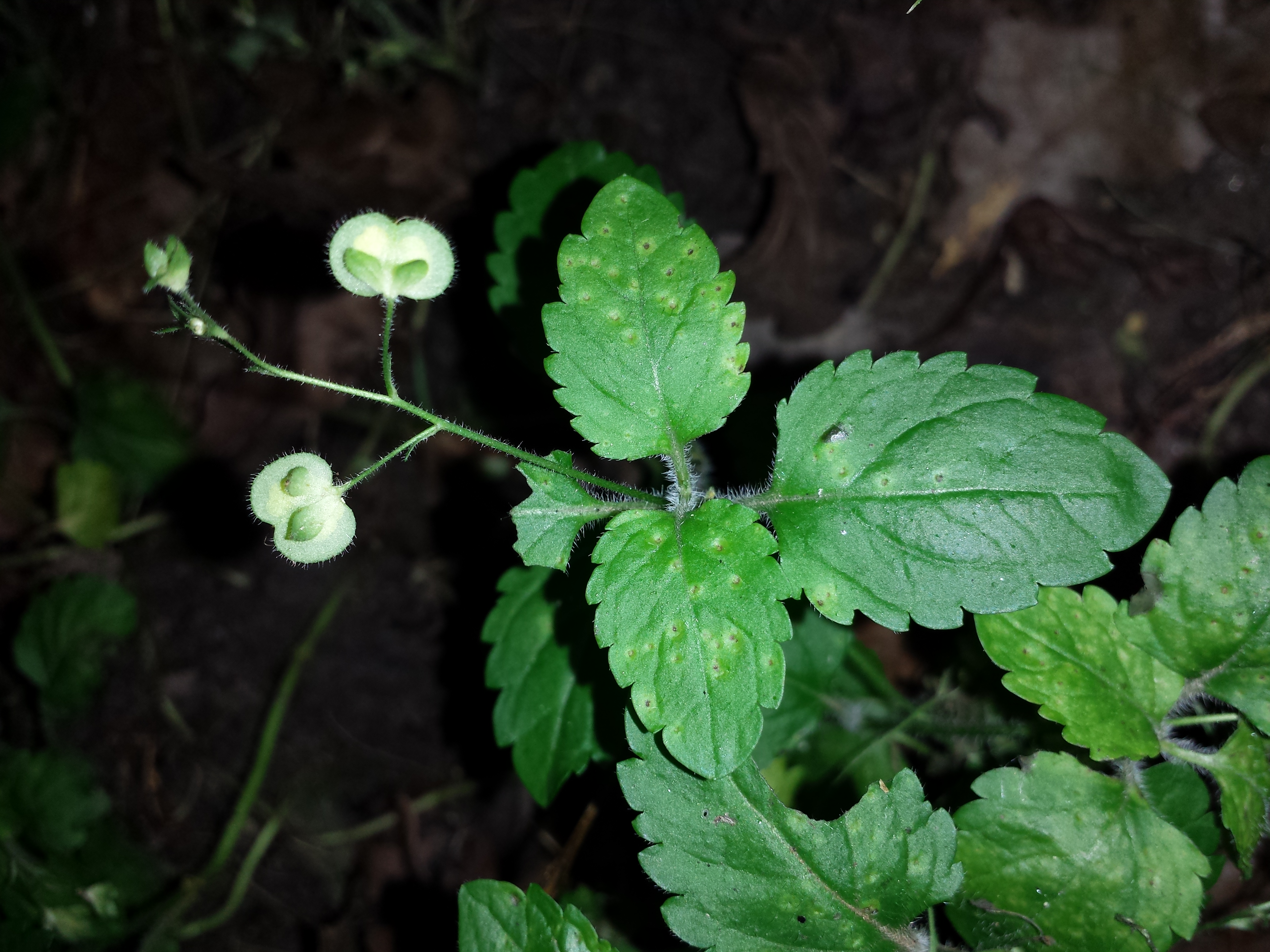 Habitus Taxonym: Veronica montana ss Fischer et al. EfÖLS 2008 ISBN 978-3-85474-187-9; det. Gergely Király 2015-06-04 Location: wood to the east of Lenti, Zala County, Hungary - ca. 170 m a.s.l. Habitat: wood of Quercus robur and Carpinus betulus